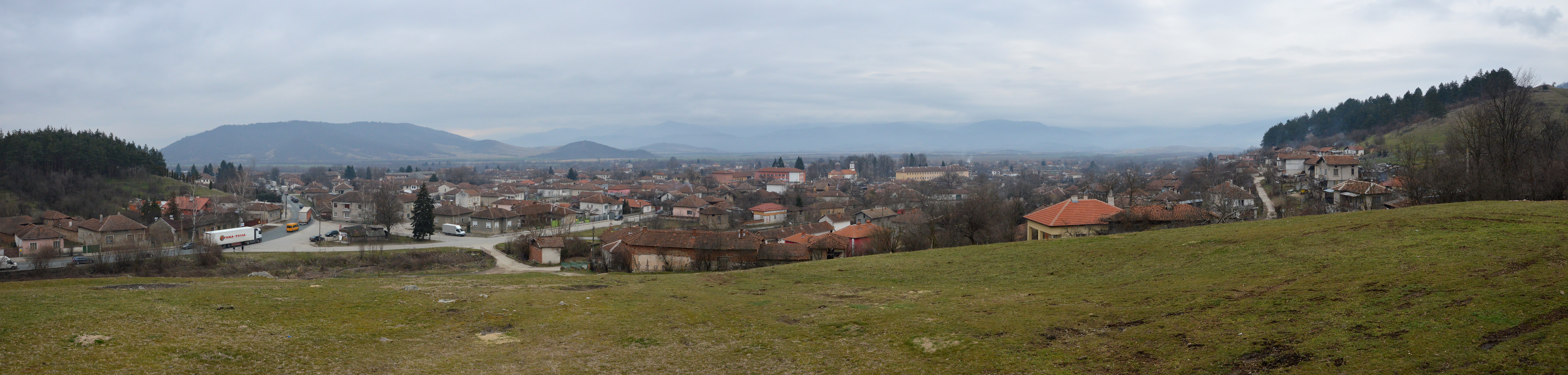 Panorama of the village of Novachene, Sofia District, Bulgaria. Note that it's not a seamless stitch of the photos.